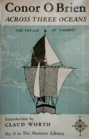 Cover of O'Brien's book about the voyages of the Saoirse Across Three Oceans'